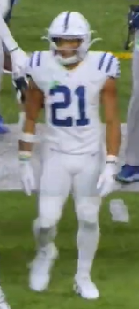 Nyheim Hines 2019. Image from video Game-Changing INTs vs. Colts | Beneath the Surface, ~ 02:05.